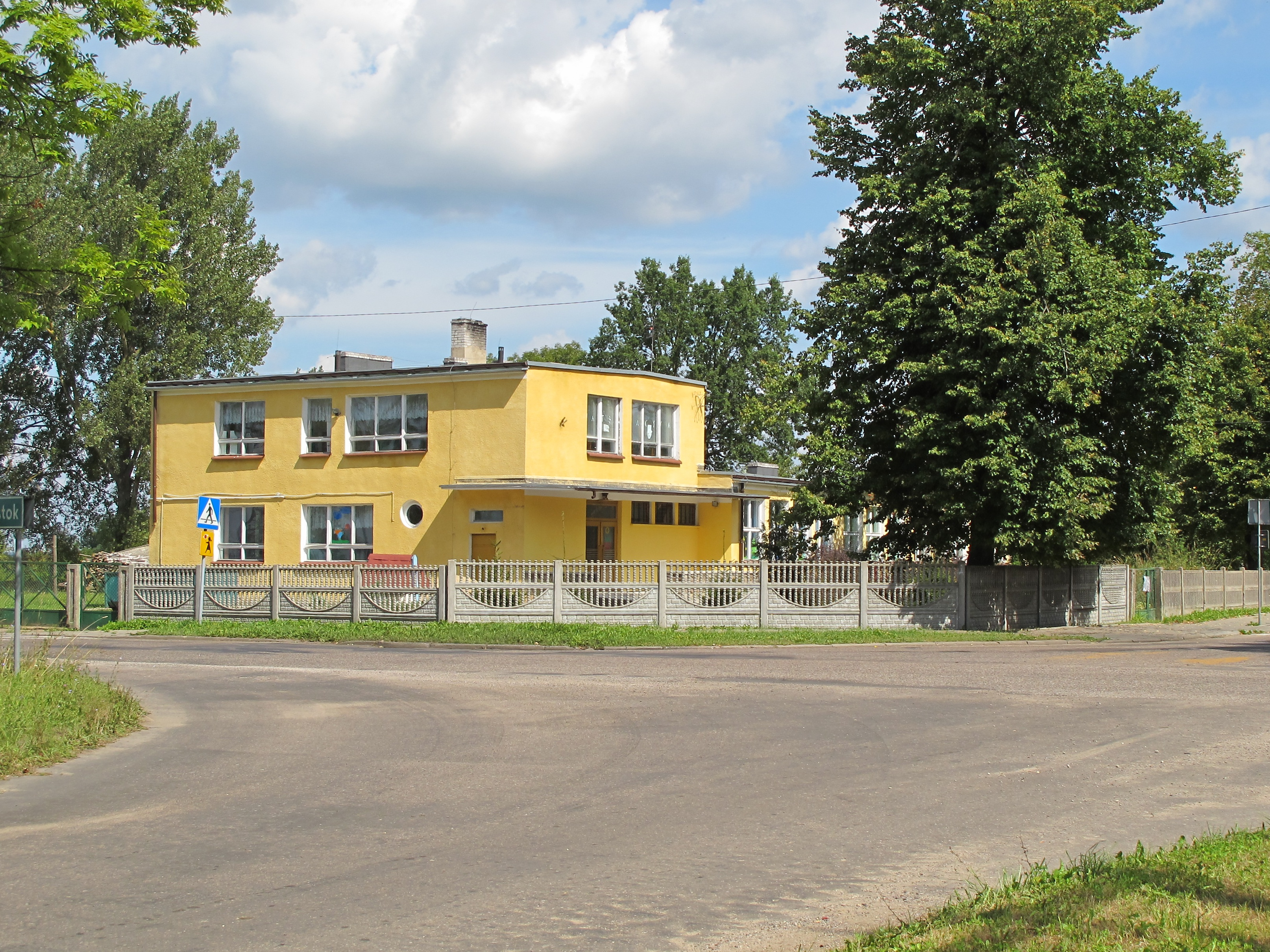 Elementary school in Nowa Wola village, gmina Michałowo, podlaskie, Poland